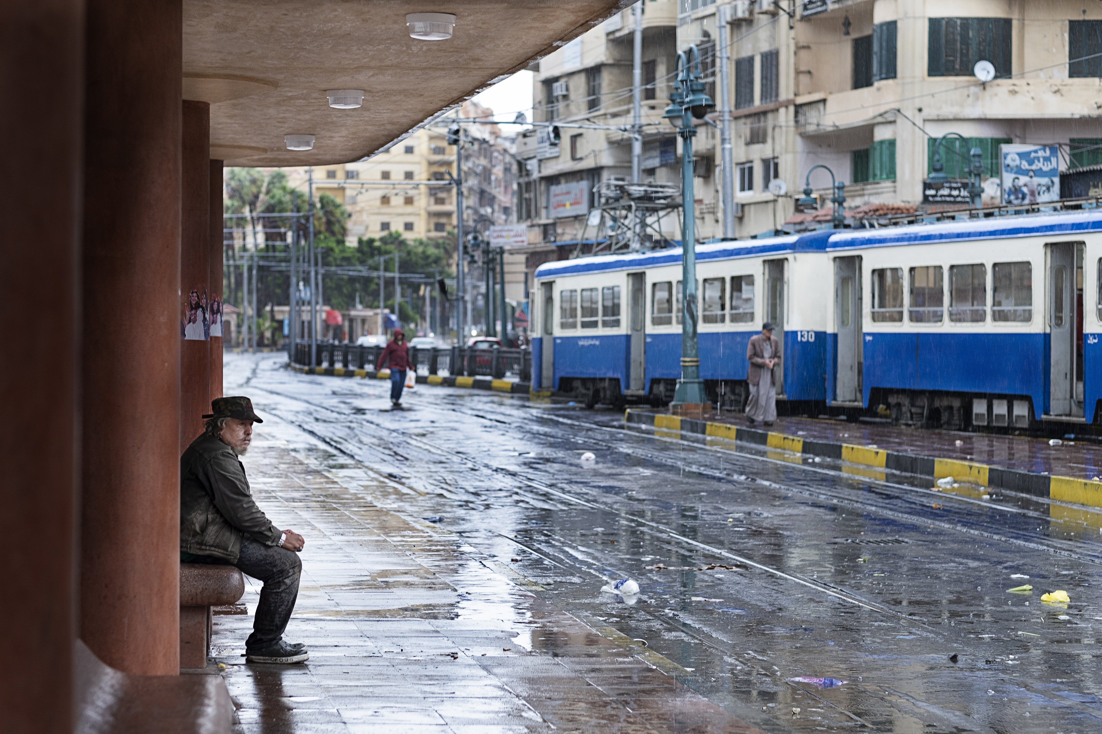 Alexandria in winter This is an image with the theme "Africa on the Move or Transport" from: Egypt